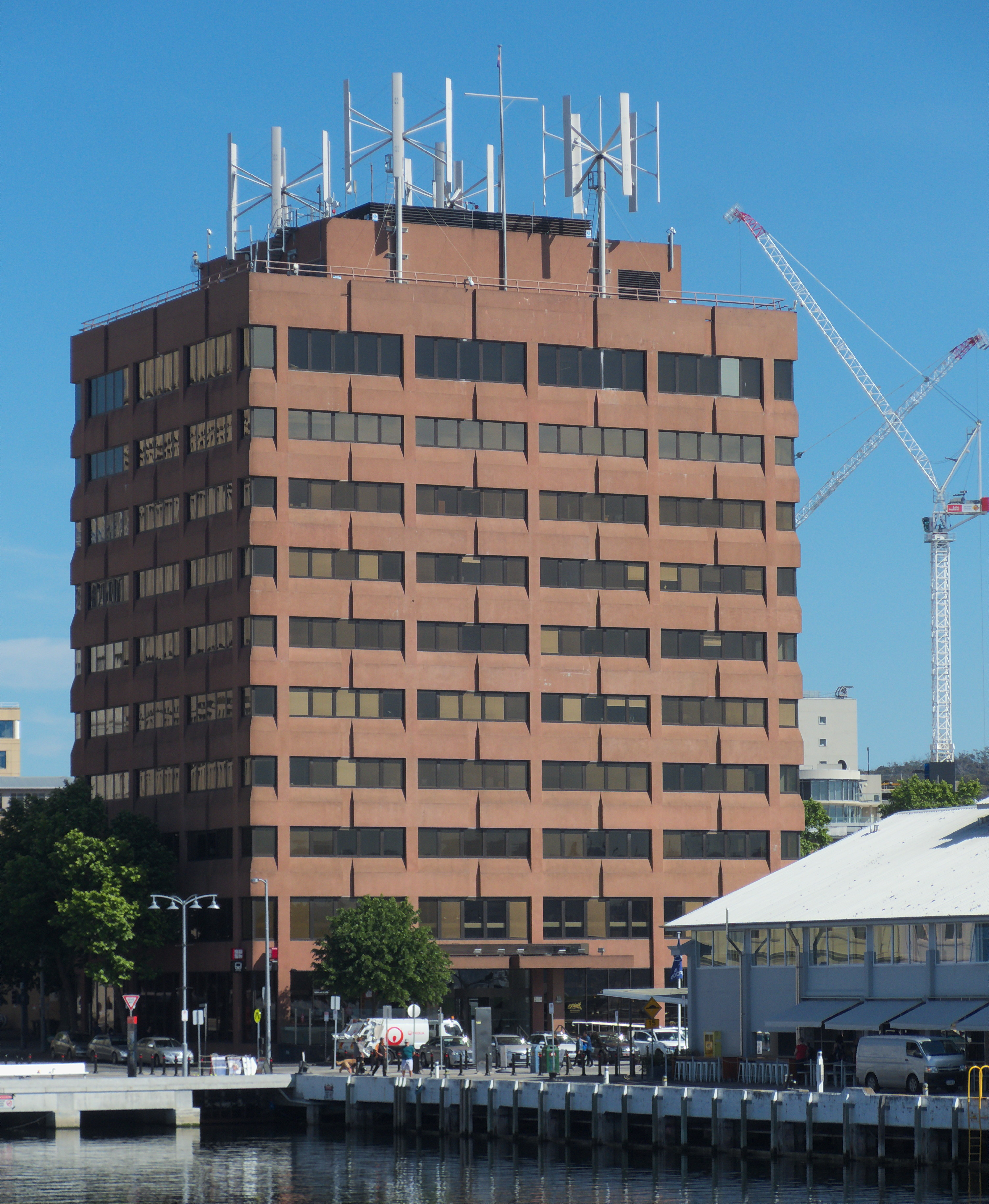 Marine Board building, 1 Franklin Wharf, Hobart.